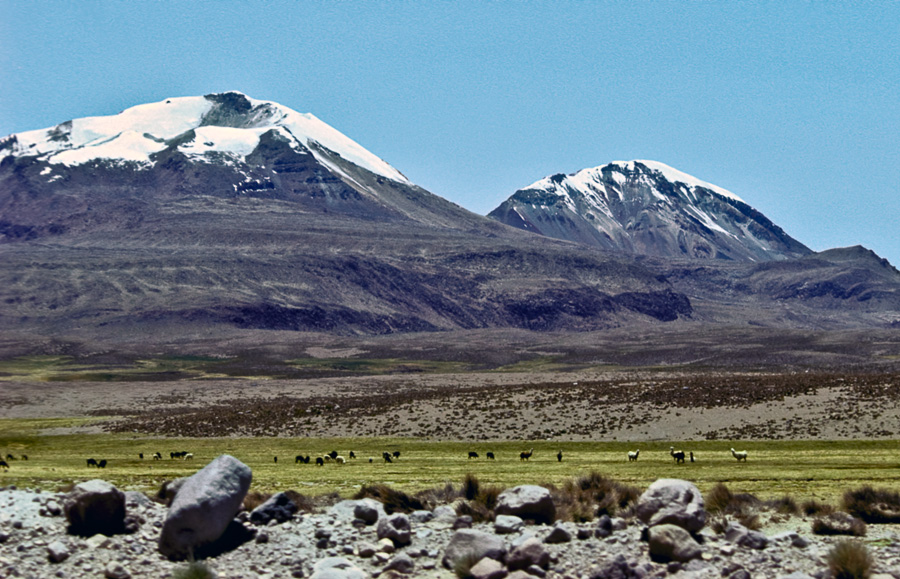 Acotango (left) is the dominant volcano of the "Nevados de Quimsachata" group.